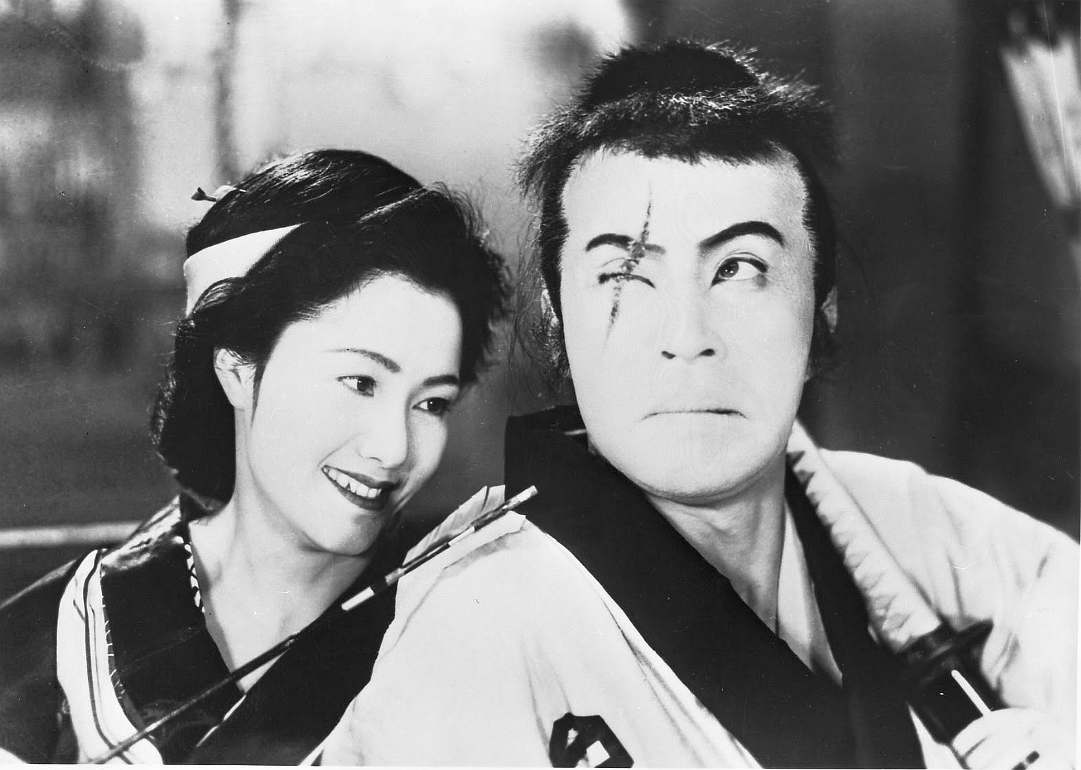 Kiyozō Shinbashi and Denjirō Ōkōchi in Tange Sazen yowa : Hyakuman-ryō no tsubo (丹下左膳余話 百萬両の壺) directed by Sadao Yamanaka - 1935